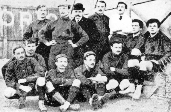 Senior squad of Italian football team, Torino F.C.